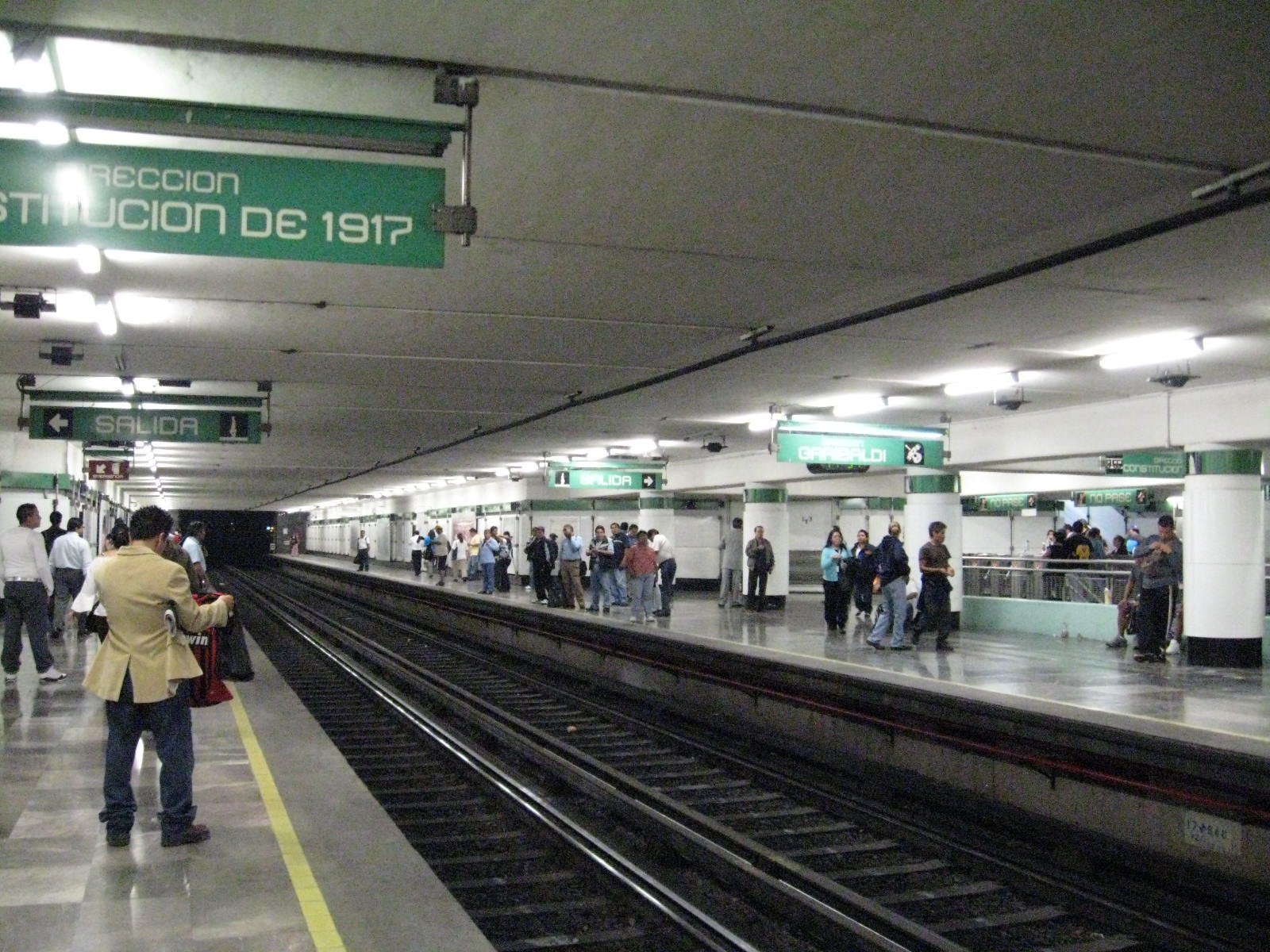 View of northbound platform of Metro San Juan de Letran of Line 8 of the Mexico City Metro system.